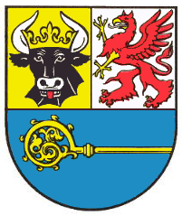 Coat of arms of the German city of Dargun.